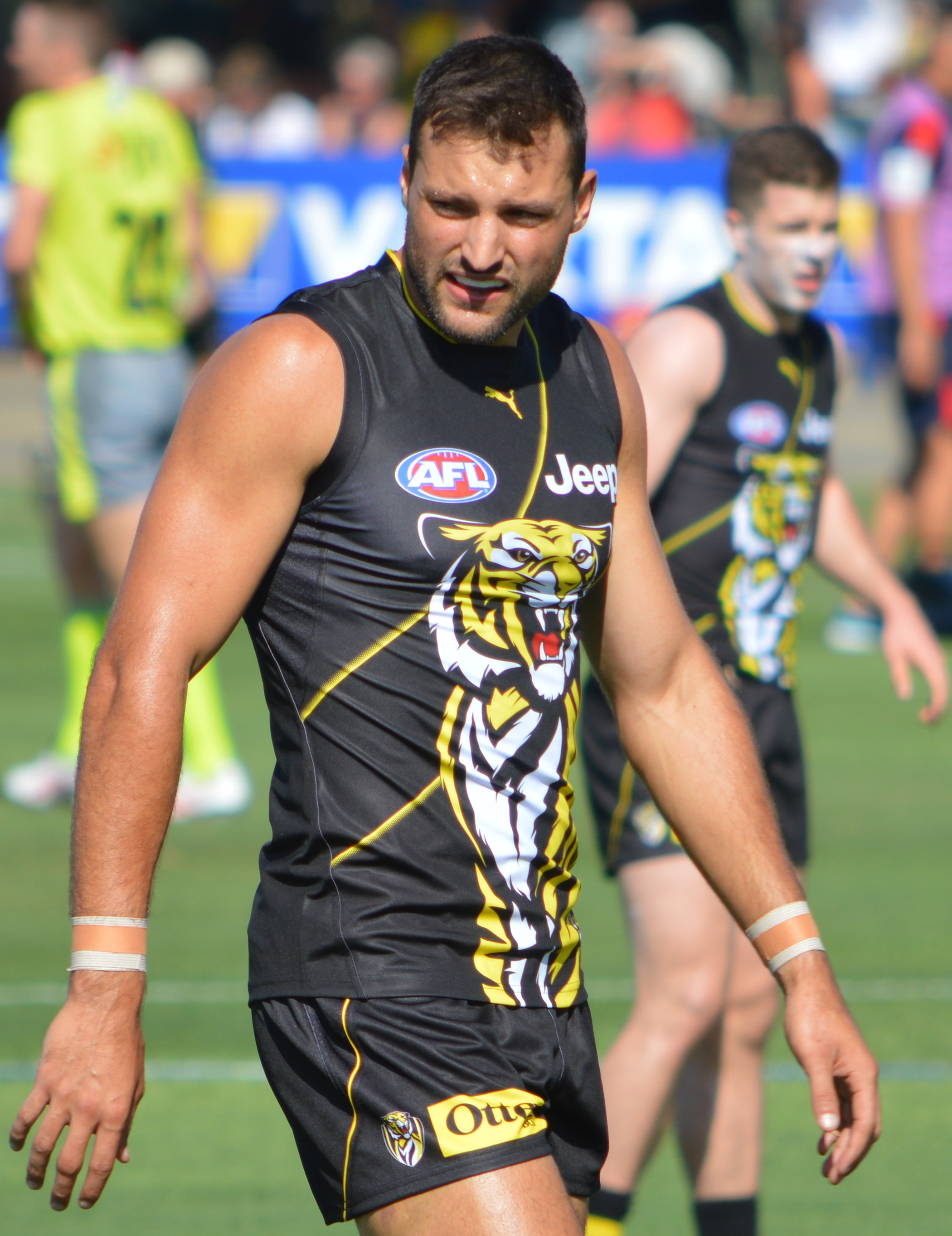 Toby Nankervis with Richmond during a JLT Community Series match against Melbourne in Shepparton in March 2019.